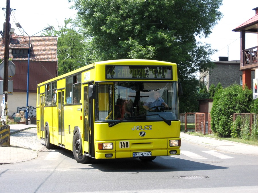 Jelcz 120MM/2 city bus (#148) in Mysłowice, Poland. Built 2001, PKM Katowice operator.